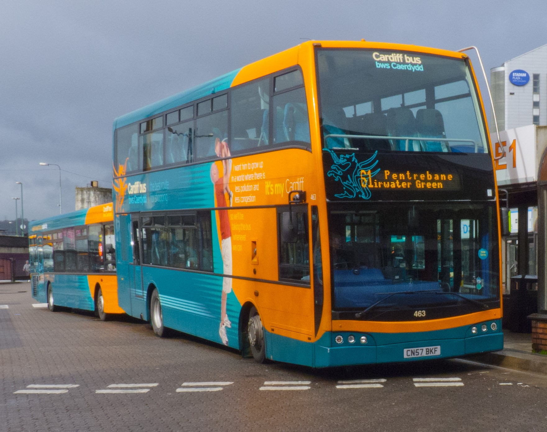 Cardiff Bus double decker, Cardiff Bus Station, Cardiff, Wales